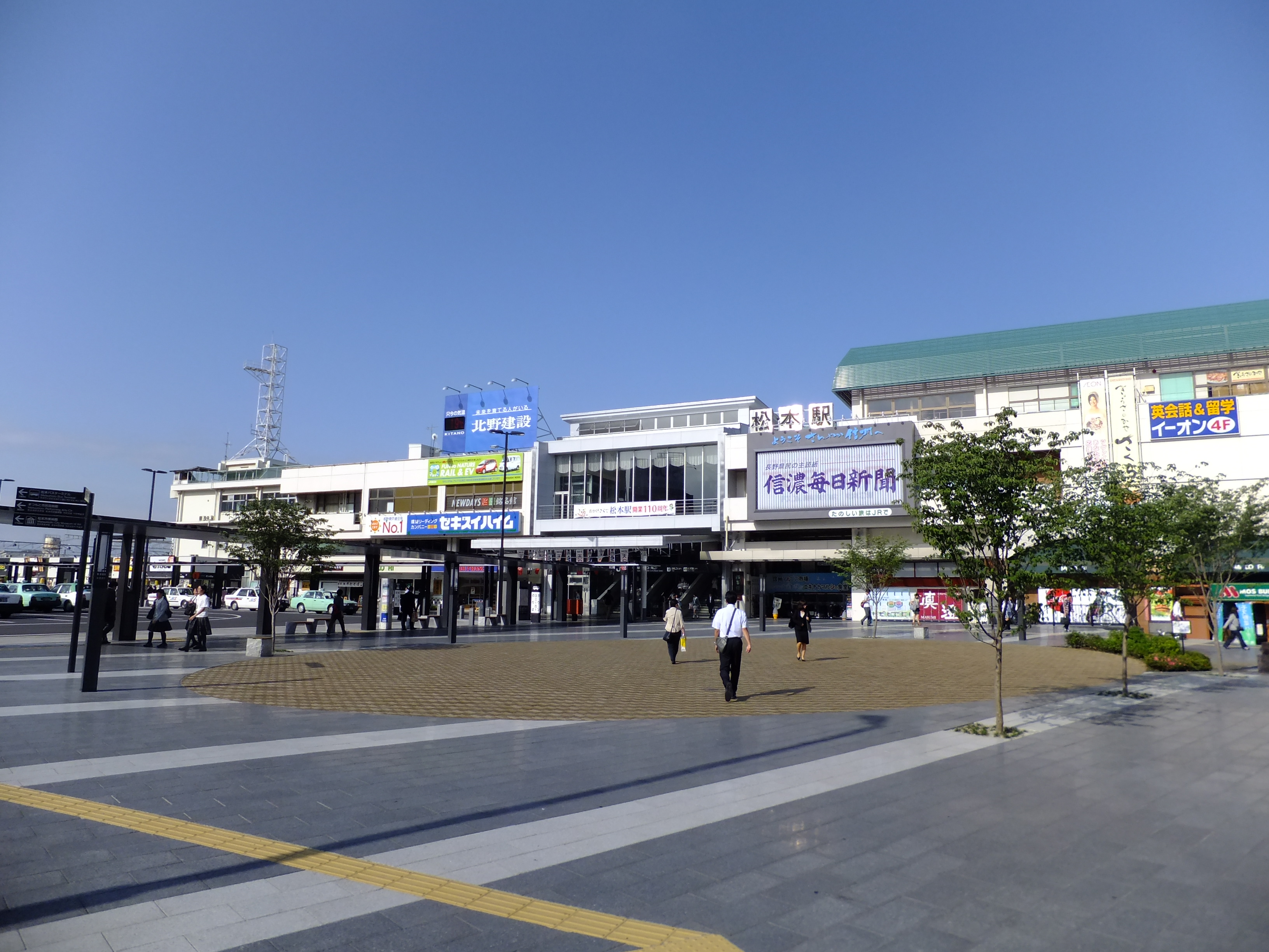 East side of Matsumoto Station in Matsumoto City, Nagano Prefecture, Japan.